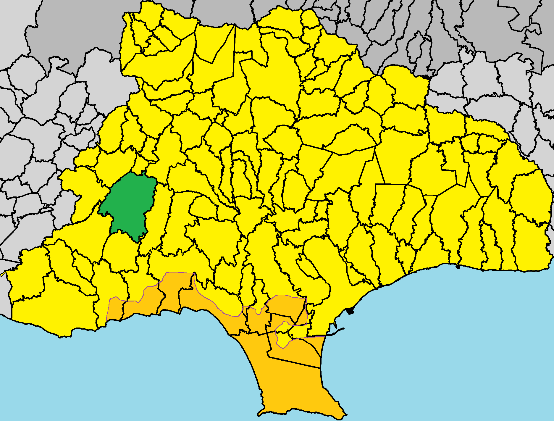 Pachna in Limassol District.